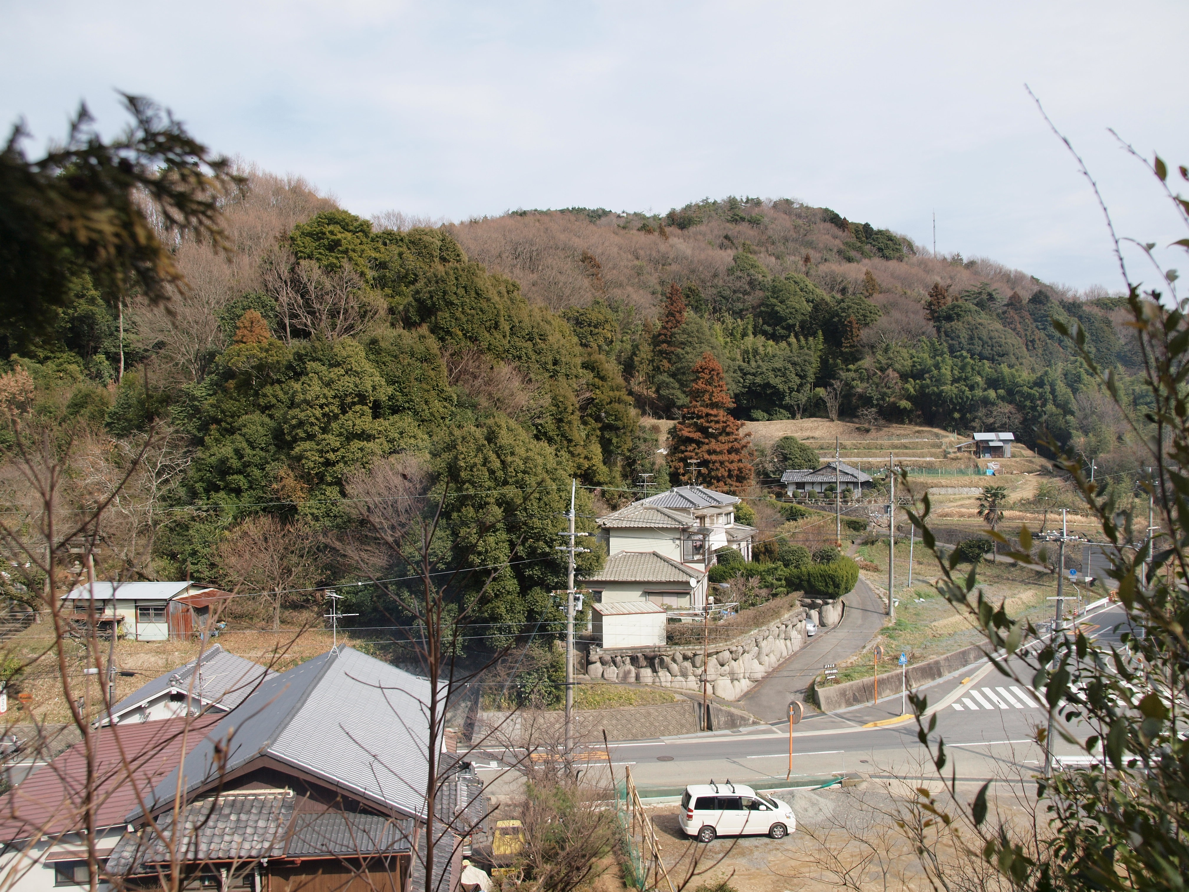 Ryuozan (mountain) of Ibaraki, Osaka, Japan